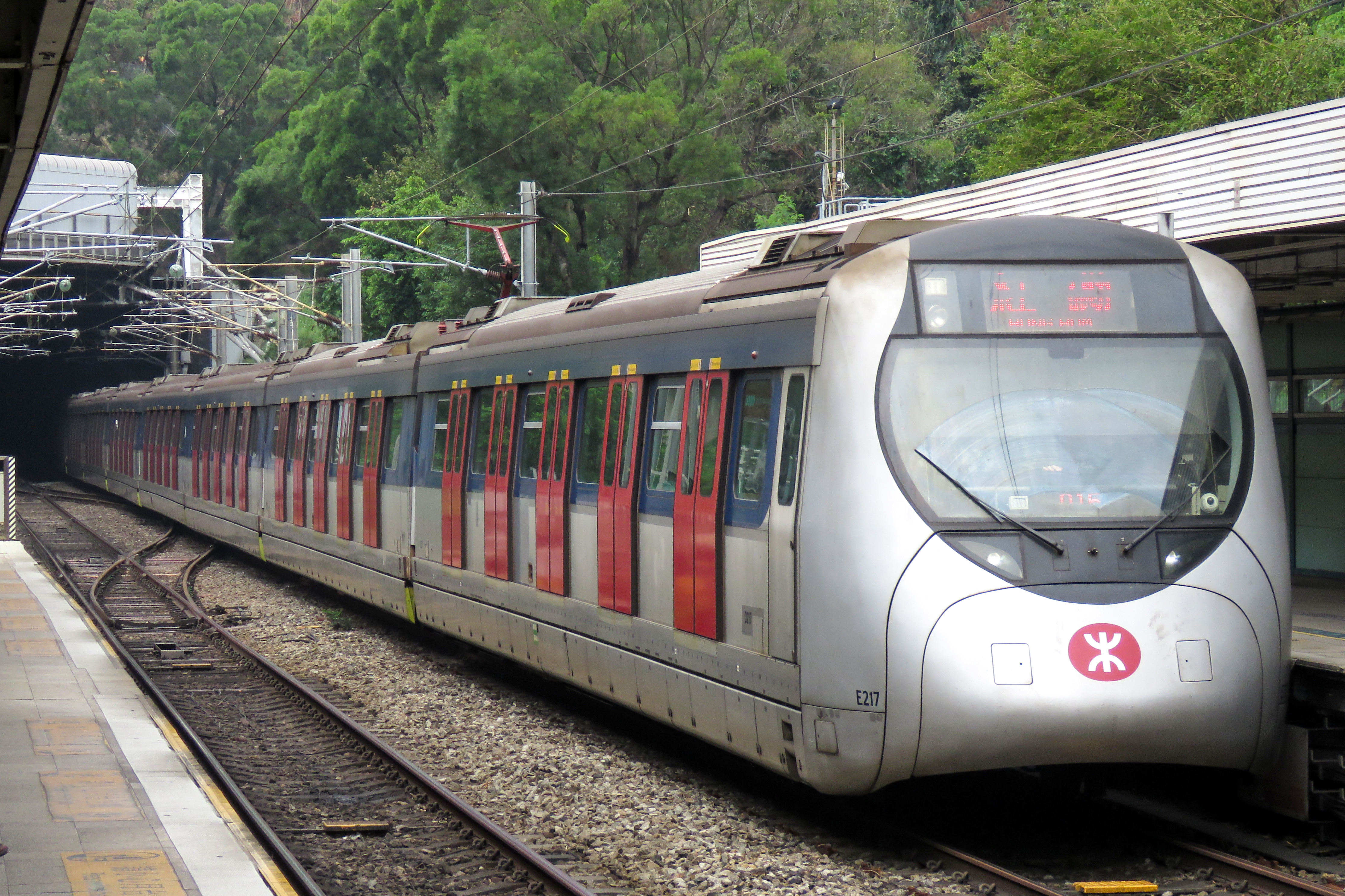 SP1900 has become a rare species following the progress of Tuen Ma Line.